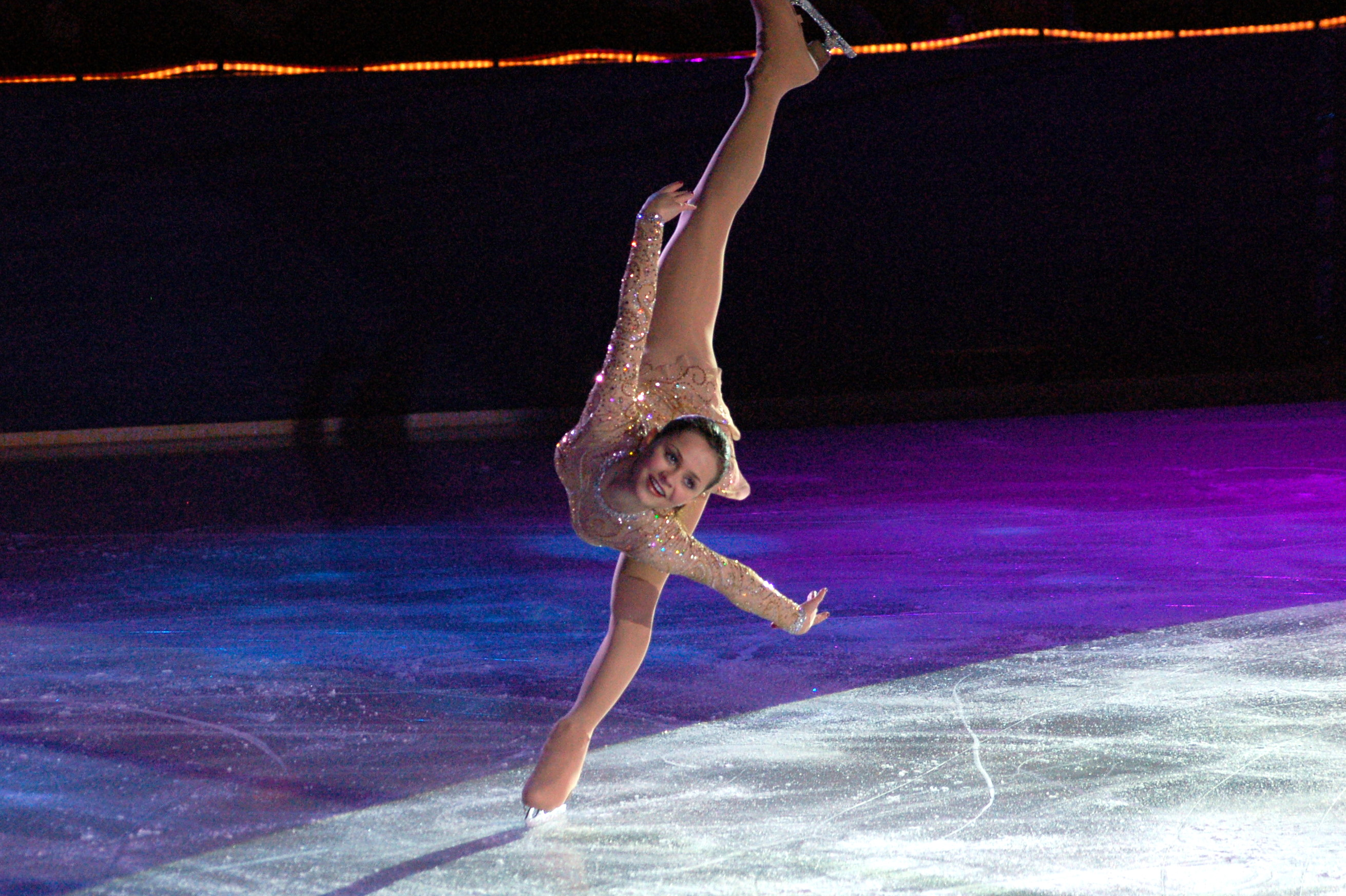 Sasha Cohen performs a spiral.